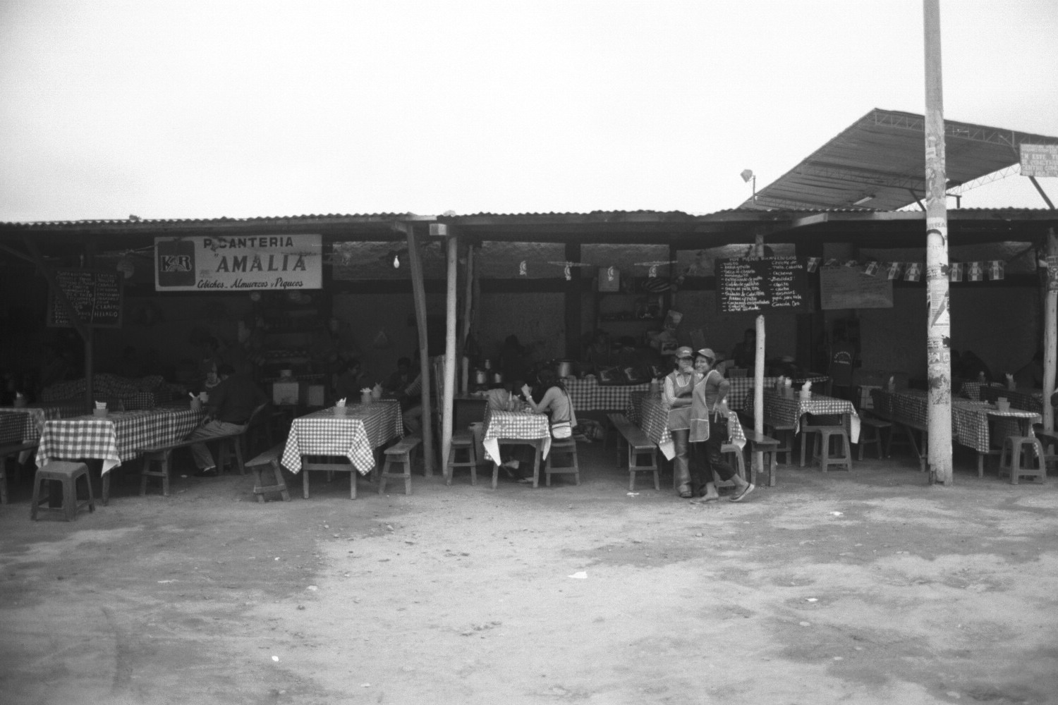 These women were at work but instantly posed when they saw me point the camera.